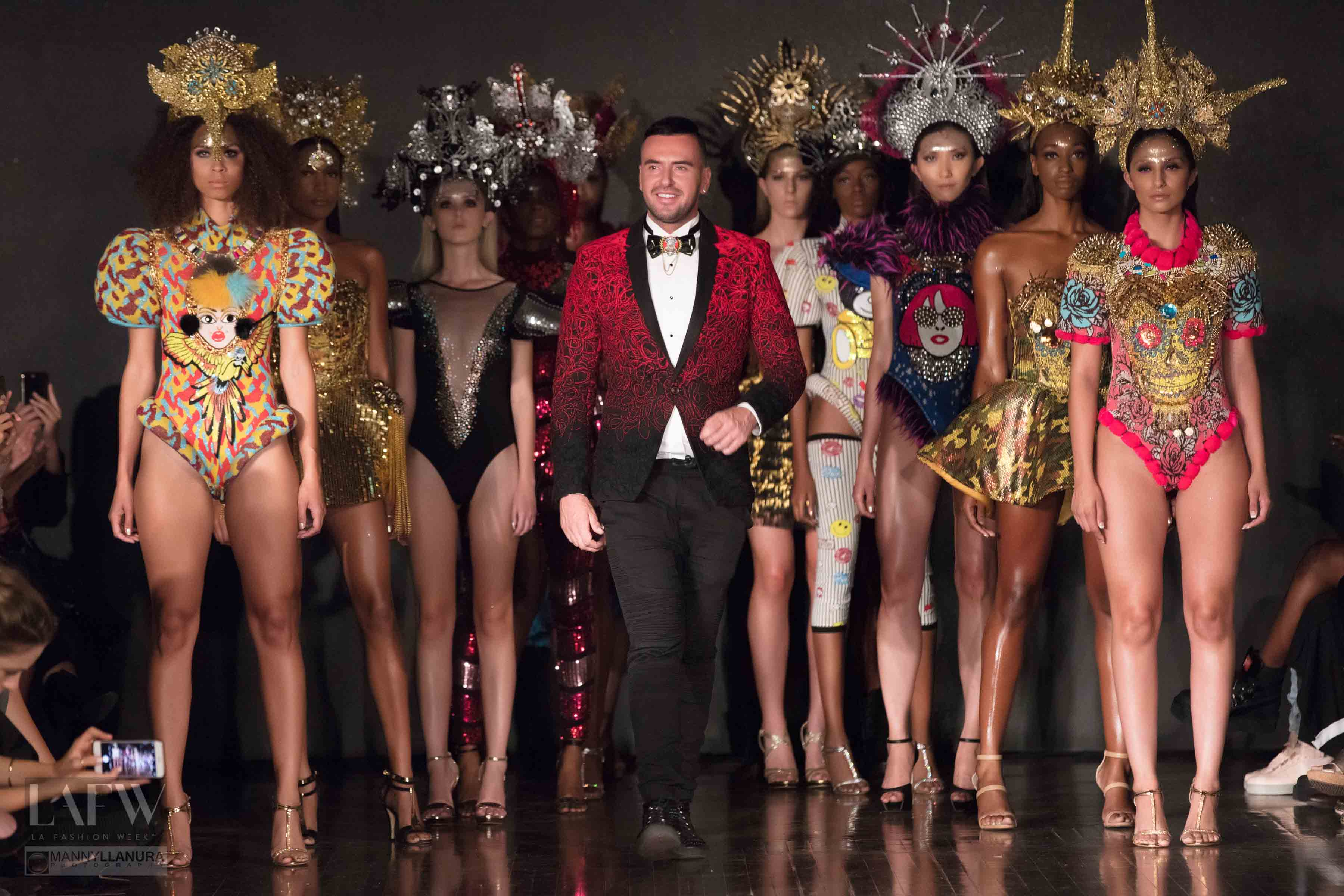 LAFWSS18-2064